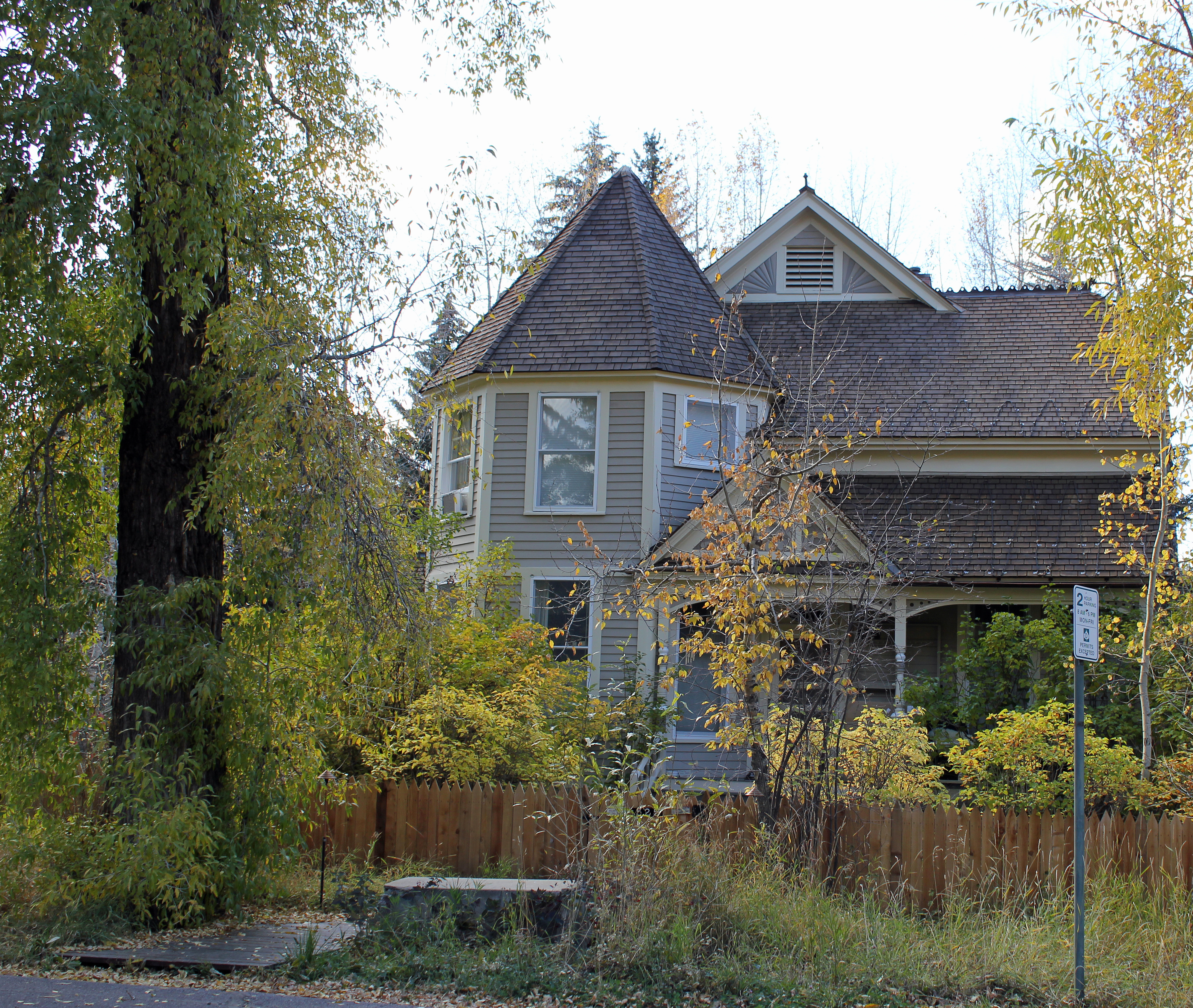 The Shilling-Lamb House, located at 525 North 2nd Street in Aspen, Colorado. The property is listed on the National Register of Historic Places.